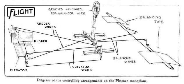 Diagram showing the linkage between the control column and wheel and the various control surfaces of the Pfitzner Flyer